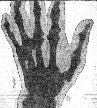 X-ray of Deacon McGuire's left hand